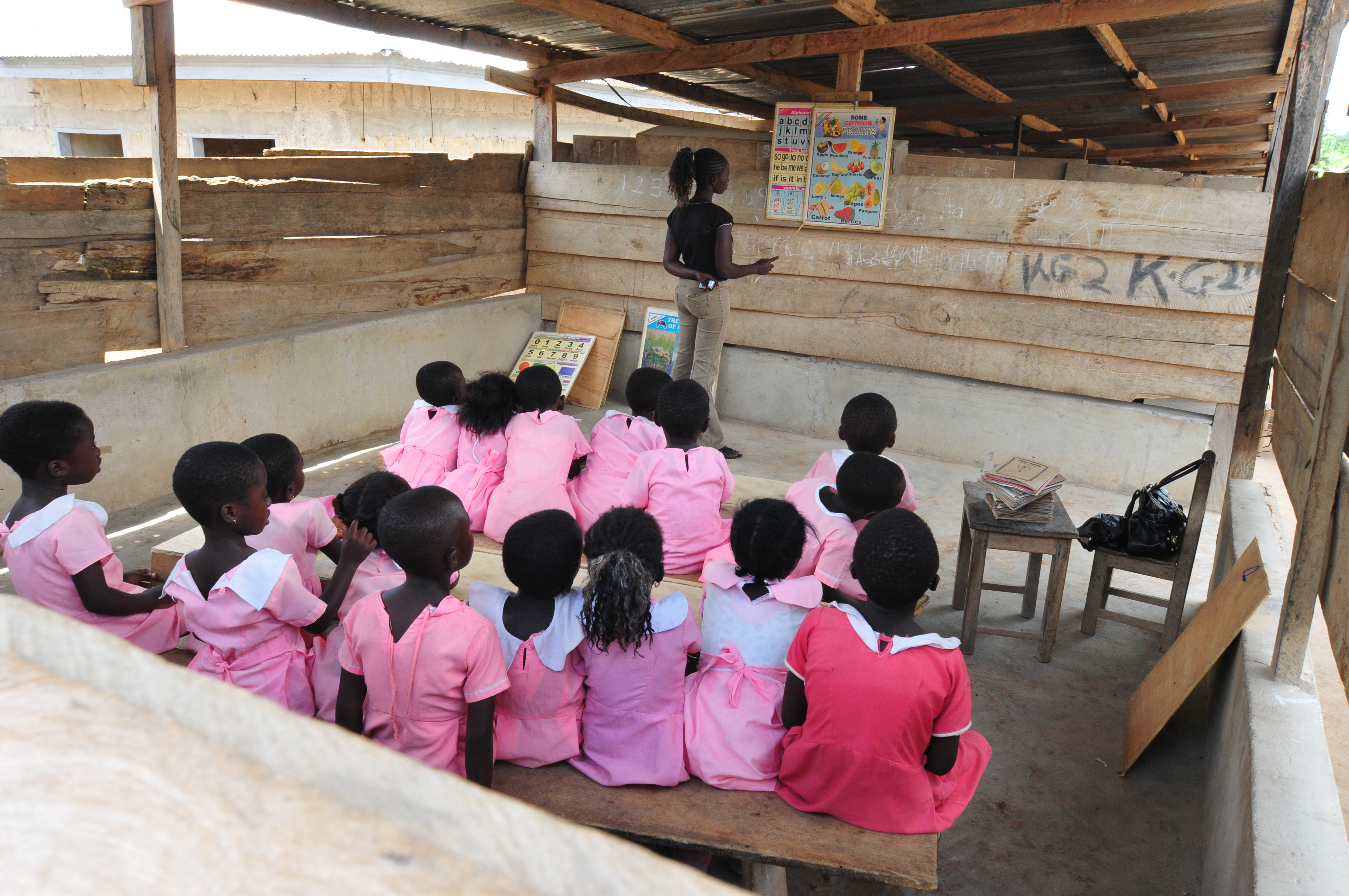 A Micro School in Ghana